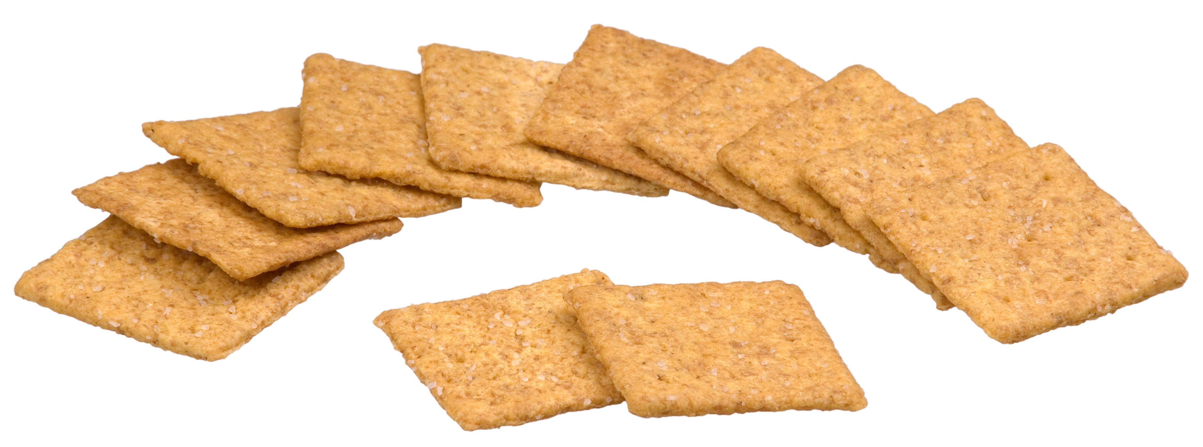 A pile of Wheat Thins crackers, made by Nabisco.